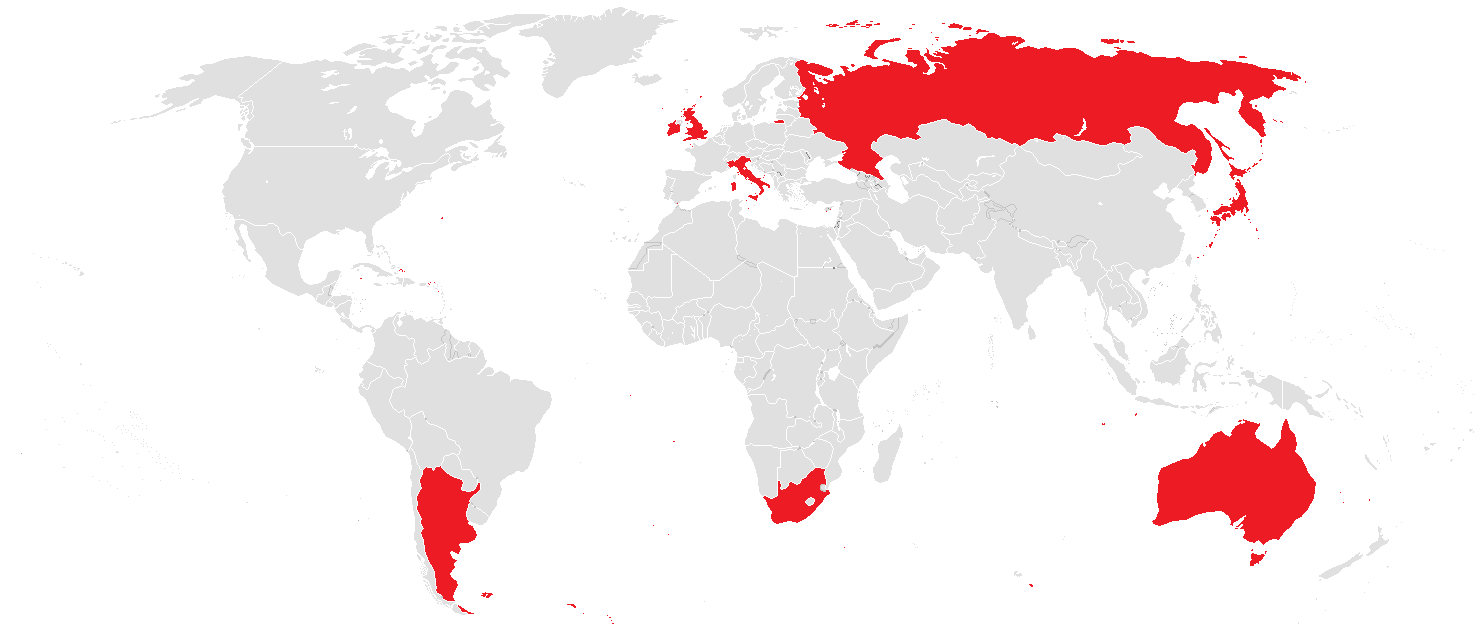 Countries that have bid to host the Rugby World Cup 2015.